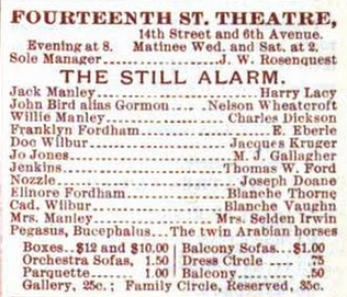 Advertisement for 1887 play "The Still Alarm" playing at the Fourteenth St. Theatre.